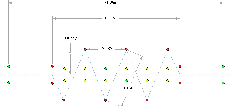 A non-scaled version of the slalom course, but with right proportions. It is not scaled beacuse of the bouy dimesions.